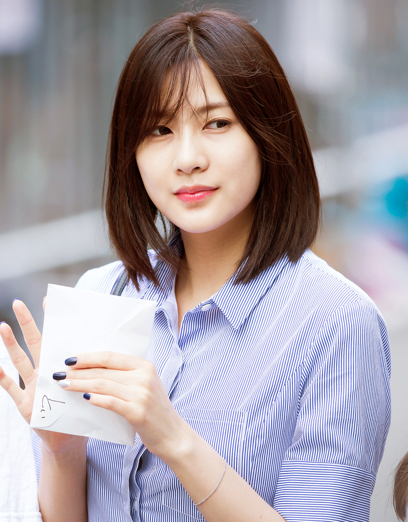 Oh Hayoung, on the way to Music Bank, in 2017.